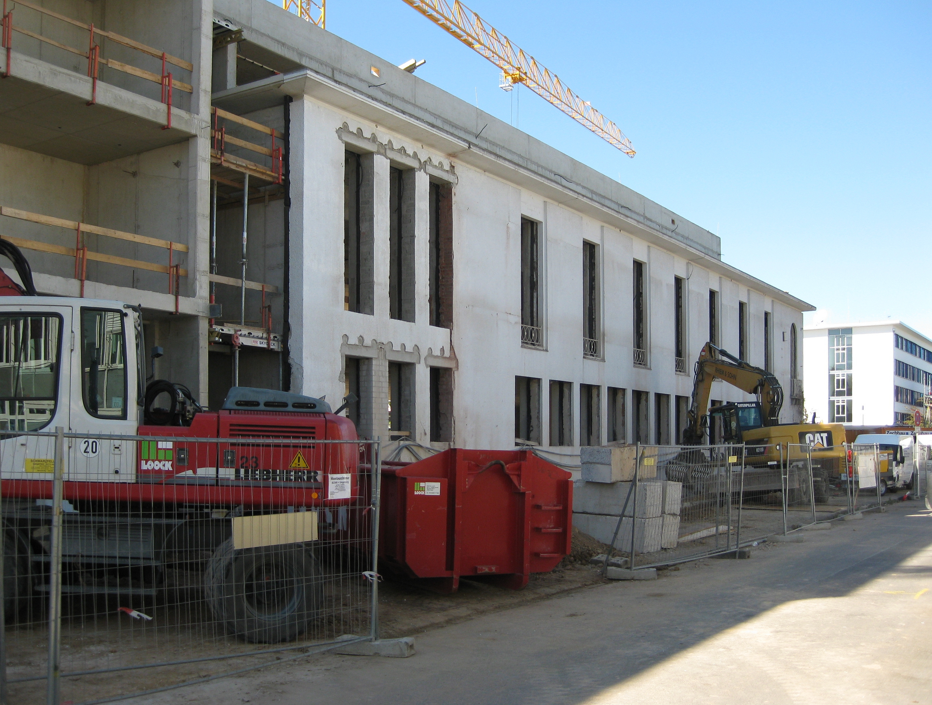 Bonn-Gronau: New office building in the development, heritage-listed facade of the former country representative of Baden-Wuerttemberg is incorporated.. This is a photograph of an architectural monument. 3871